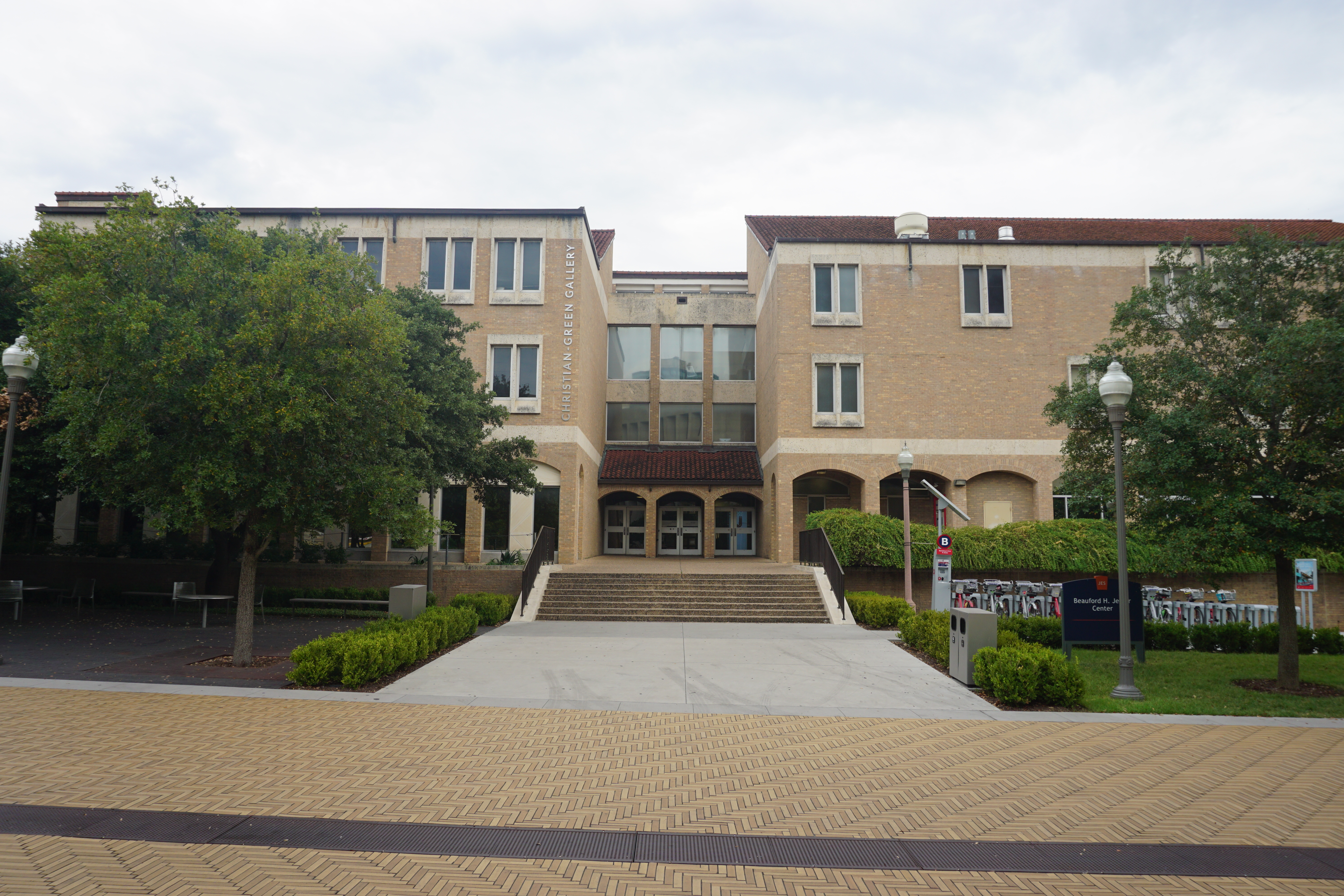 The Beauford H. Jester Center on the campus of the University of Texas at Austin in Austin, Texas (United States).